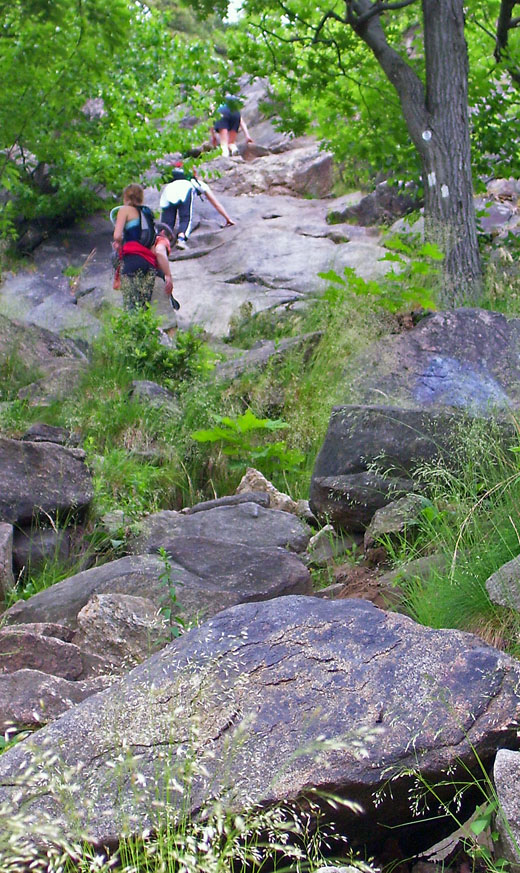 Photographed by Daniel Case 2007-06-03 along the trail.